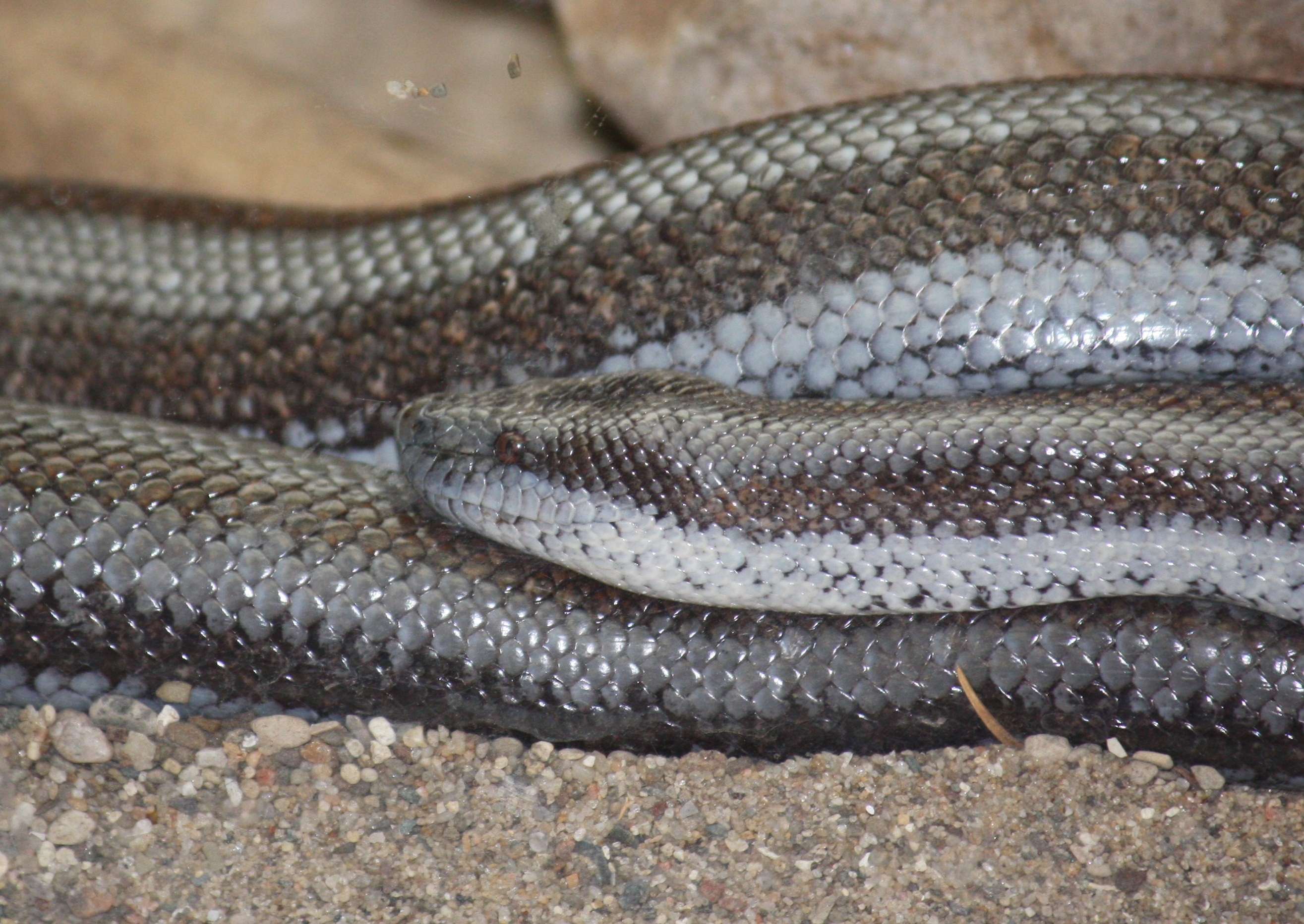 Rosy Boa Lichanura trivirgata